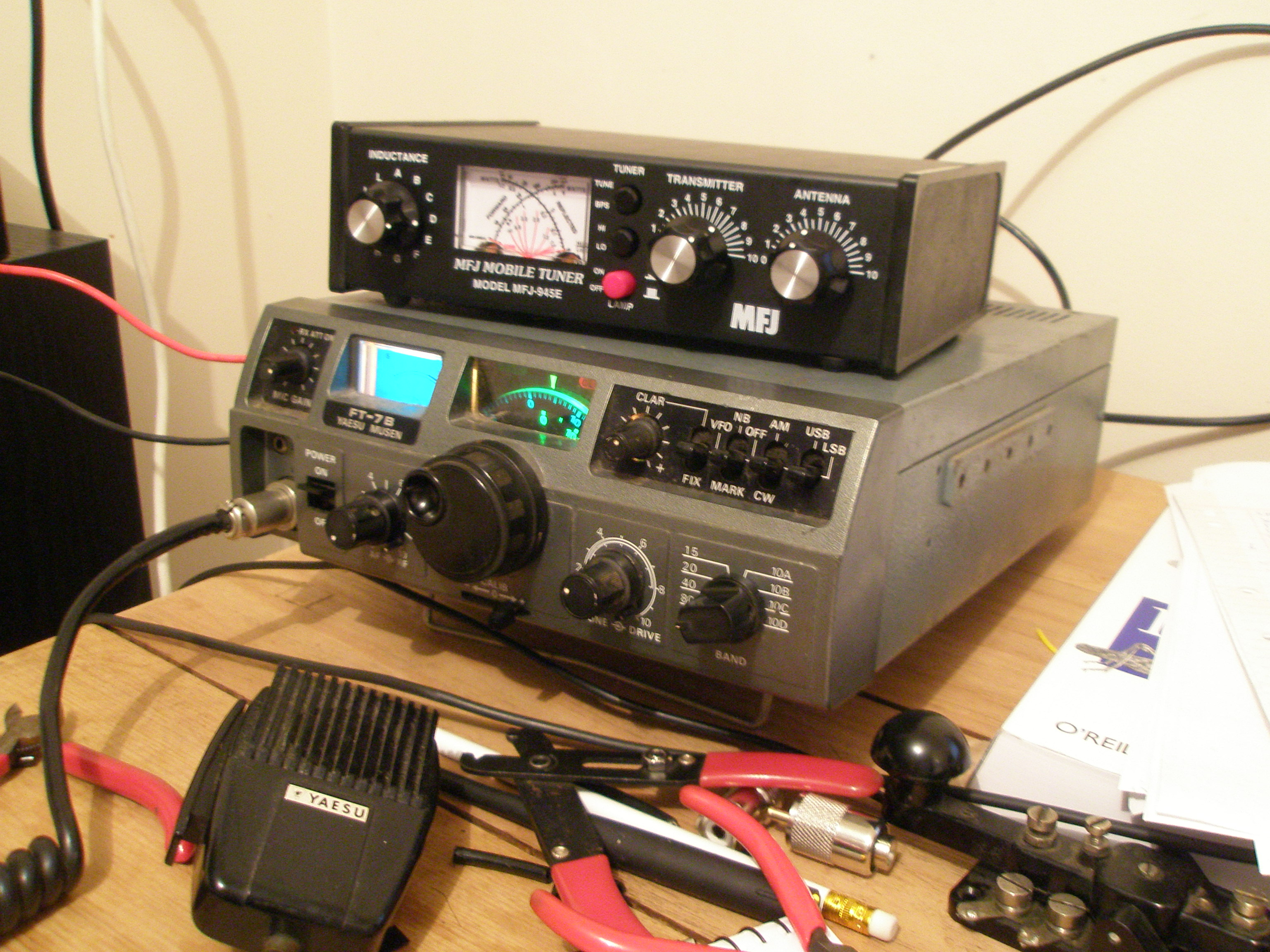 A Yaesu FT-7B attached to an MFJ-945E tuner. This rig covers 80 through 10 metres.